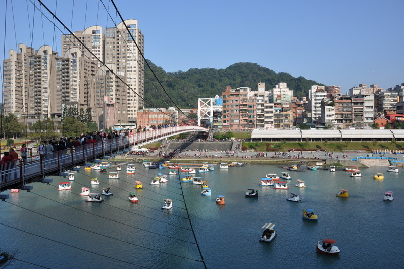 View of Bitan pedestrian bridge looking towards the MRT side of the river, Xindian.